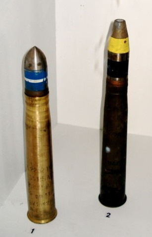 1. PzGr. 40 (37 mm anti-tank round) for German guns 3,7-cm-KwK 36 L/45 and 3,7-cm-PwK 36 L/45 2. PzGr. 39 (37 mm high explosive round) for German German guns 3.7 cm KwK 36 and PaK 36